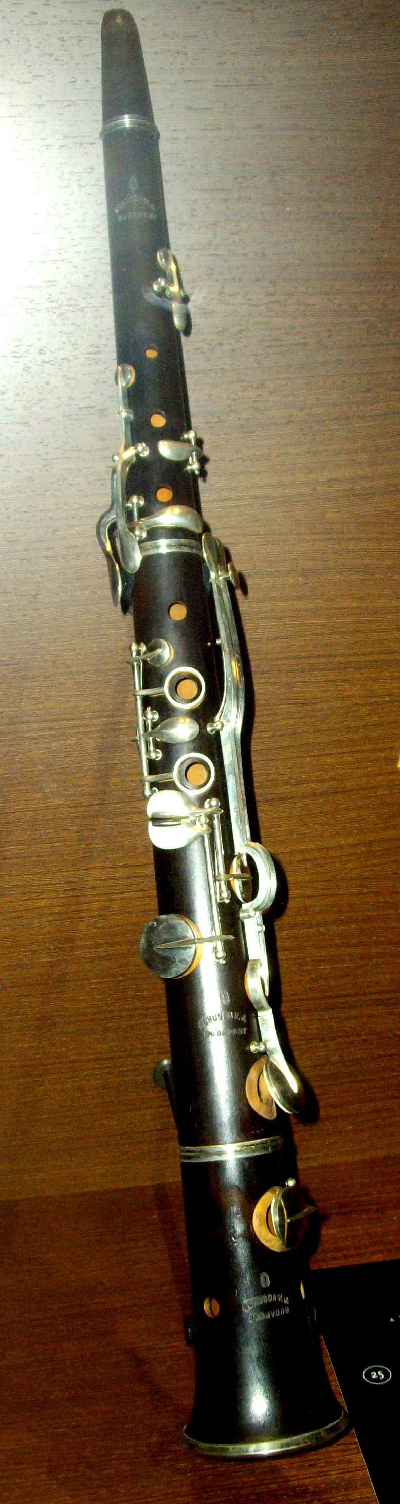 Musical windwood instrument tárogató